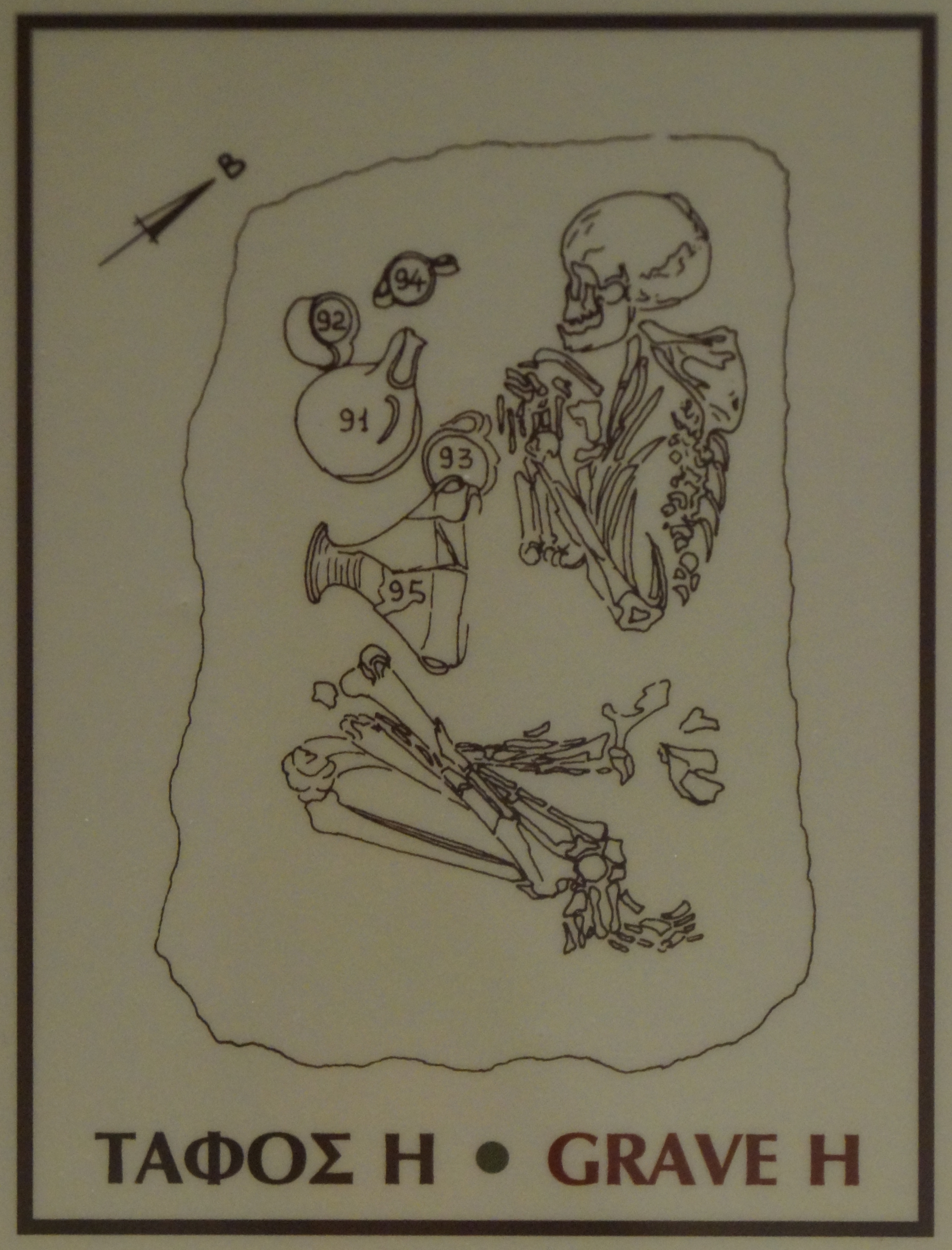 Archaeological Museum of Mycenae: Plan of Grave Eta of grave circle B.